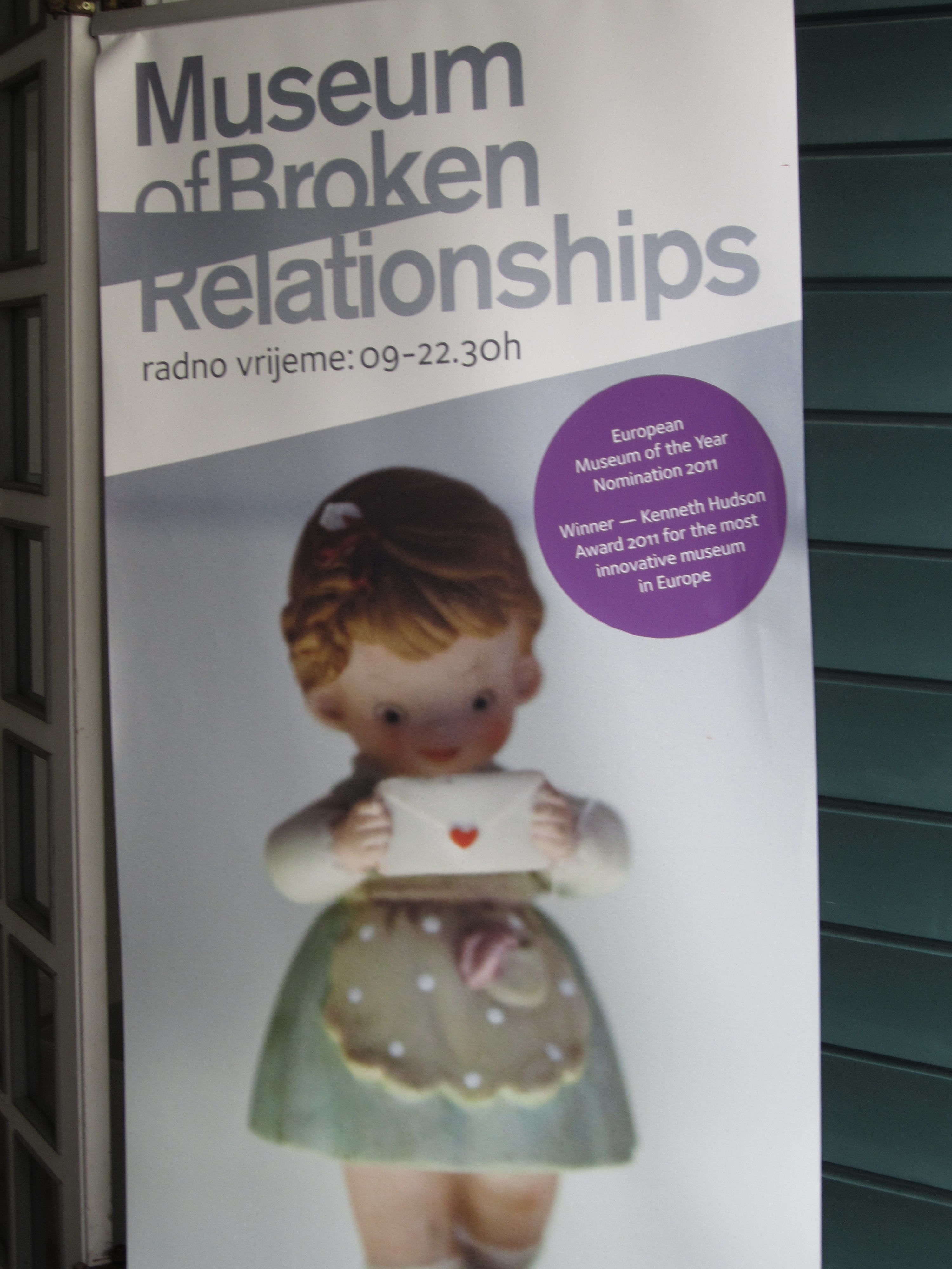 Museum of Broken Relationships in Zagreb.